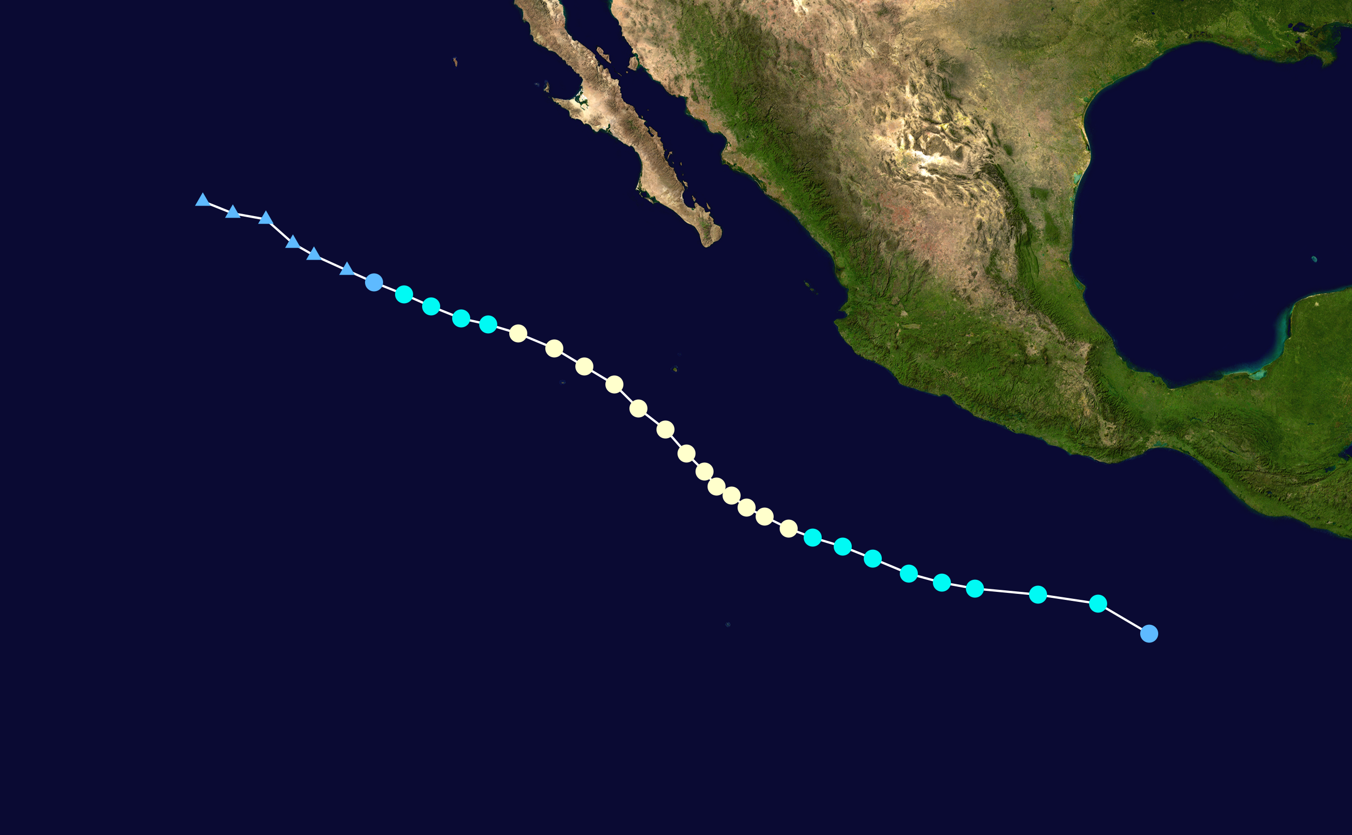 Track map of Hurricane Fausto of the 2008 Pacific hurricane season. The points show the location of the storm at 6-hour intervals. The colour represents the storm's maximum sustained wind speeds as classified in the Saffir–Simpson scale (see below), and the shape of the data points represent the nature of the storm, according to the legend below. Saffir–Simpson scale Tropical depression≤38 mph≤62 km/h Category 3111–129 mph178–208 km/h Tropical storm39–73 mph63–118 km/h Category 4130–156 mph209–251 km/h Category 174–95 mph119–153 km/h Category 5≥157 mph≥252 km/h Category 296–110 mph154–177 km/h Unknown Storm type Tropical cyclone Subtropical cyclone Extratropical cyclone / Remnant low / Tropical disturbance / Monsoon depression